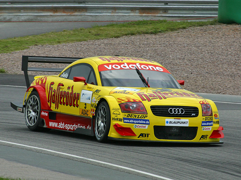 Laurent Aïello, Audi TT Abt, DTM on Sachsenring Circuit.